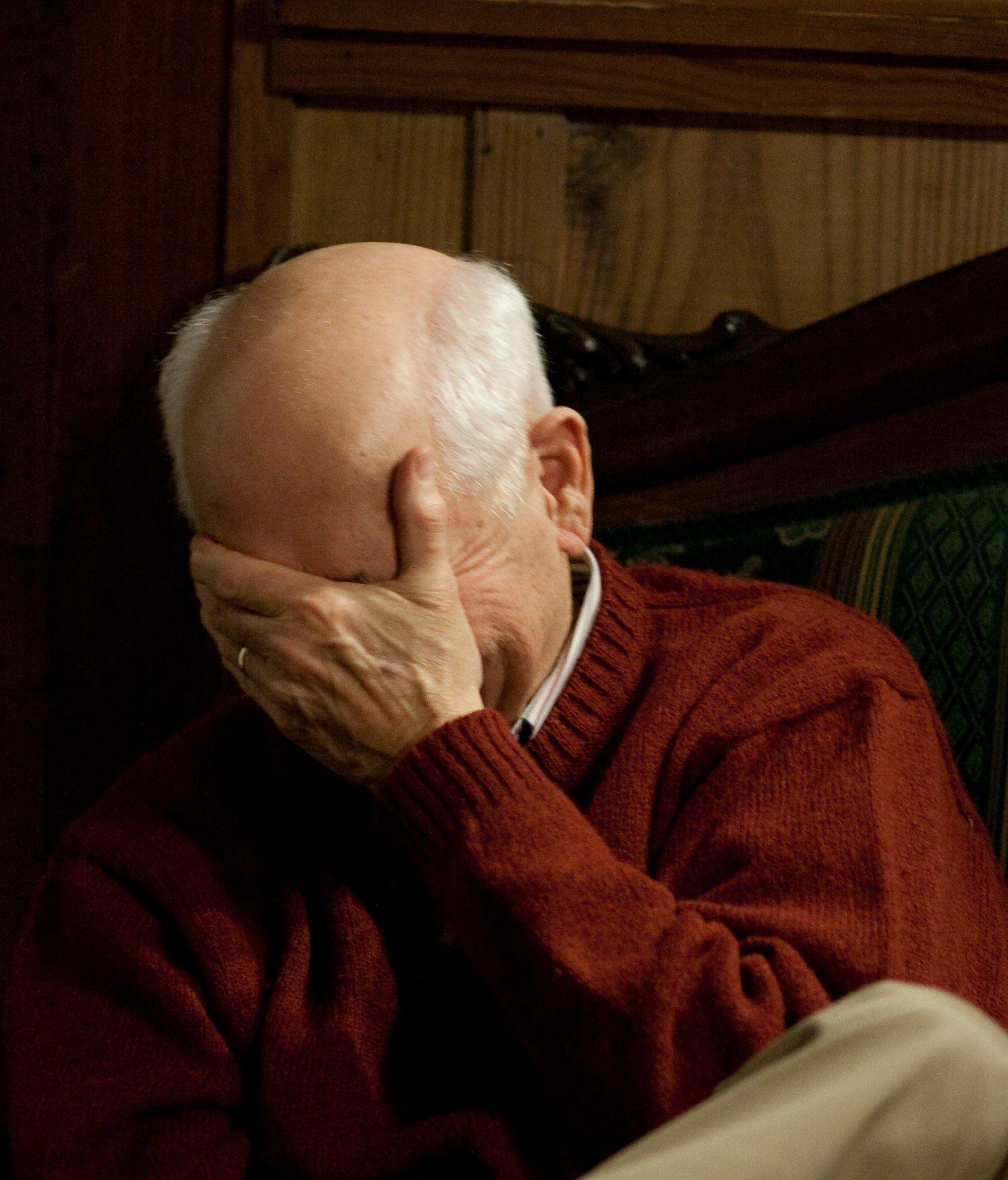 Facepalm, Photo by Katie